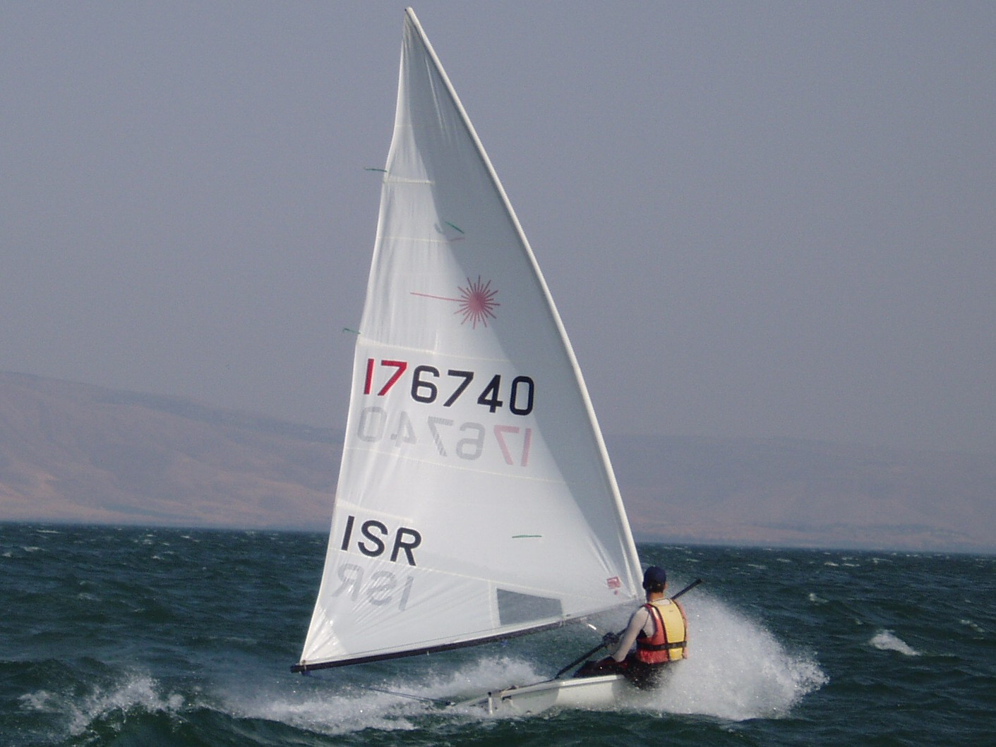 Gil Manor side wind Kineret